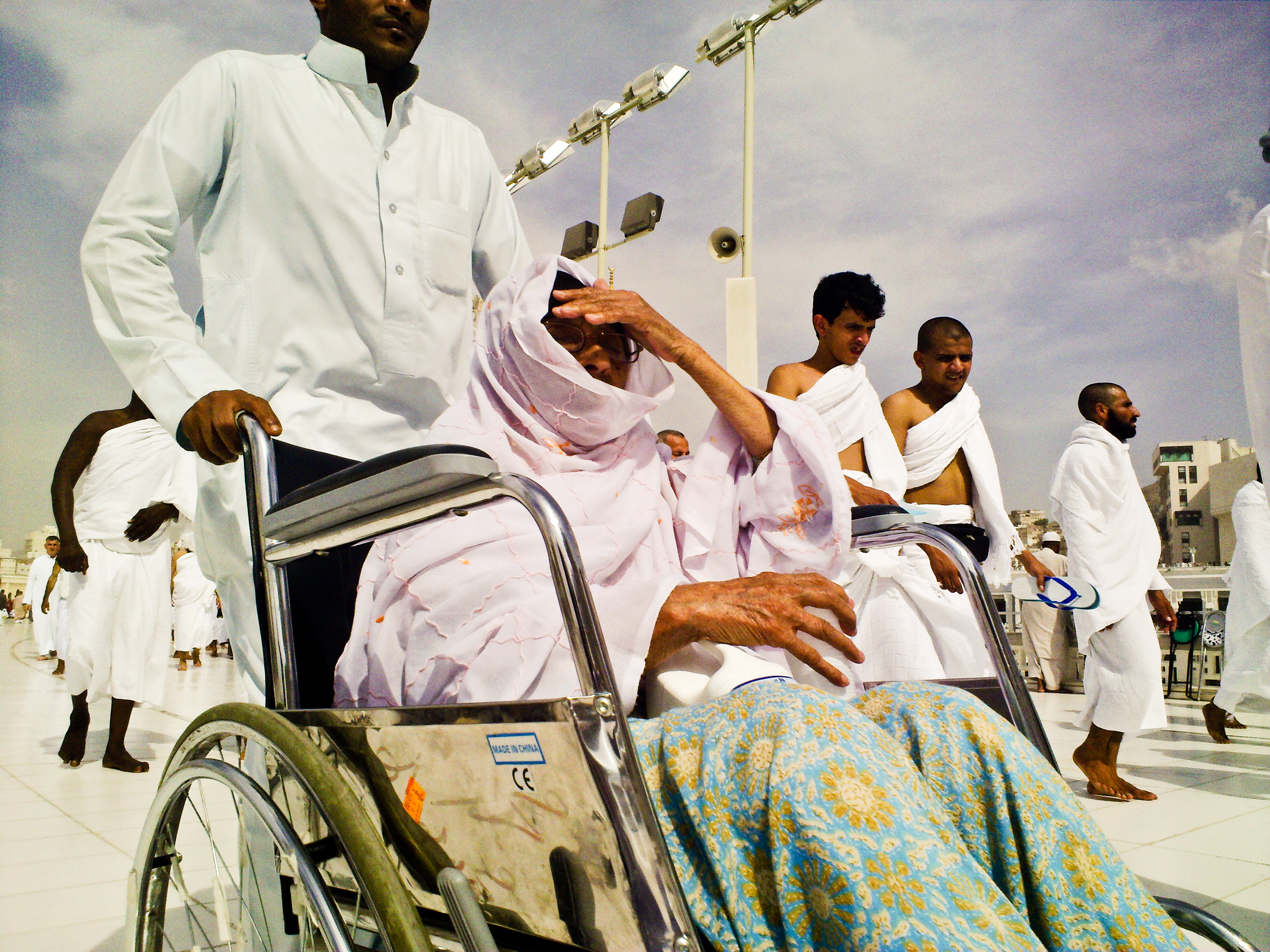 A woman in a wheelchair